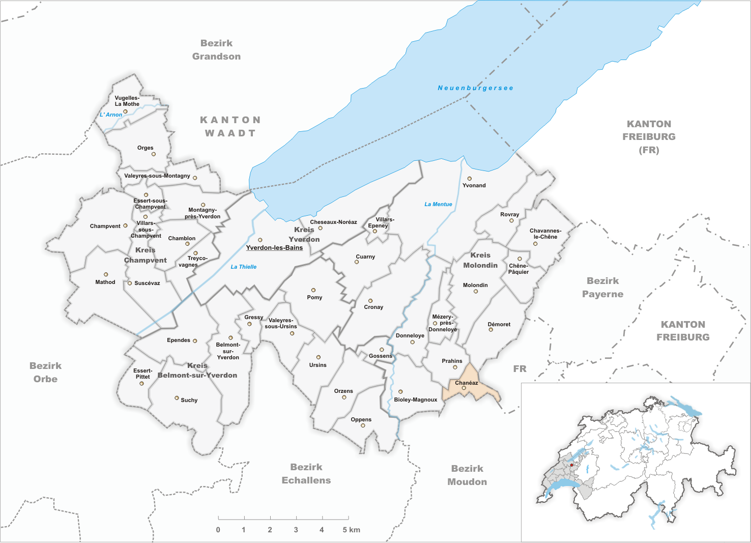 Municipality Chanéaz